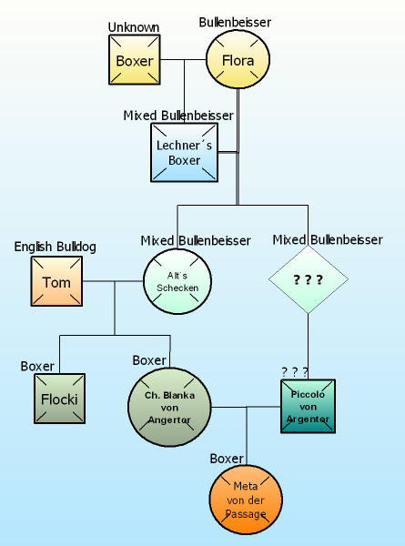 Early boxer genealogy created based on the book from Andrew H. Brace: Pet Owner's Guide to the Boxer